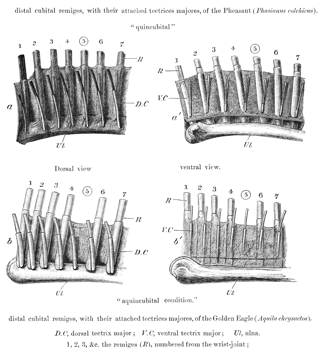 Wings showing eutaxic and diastataxic condition